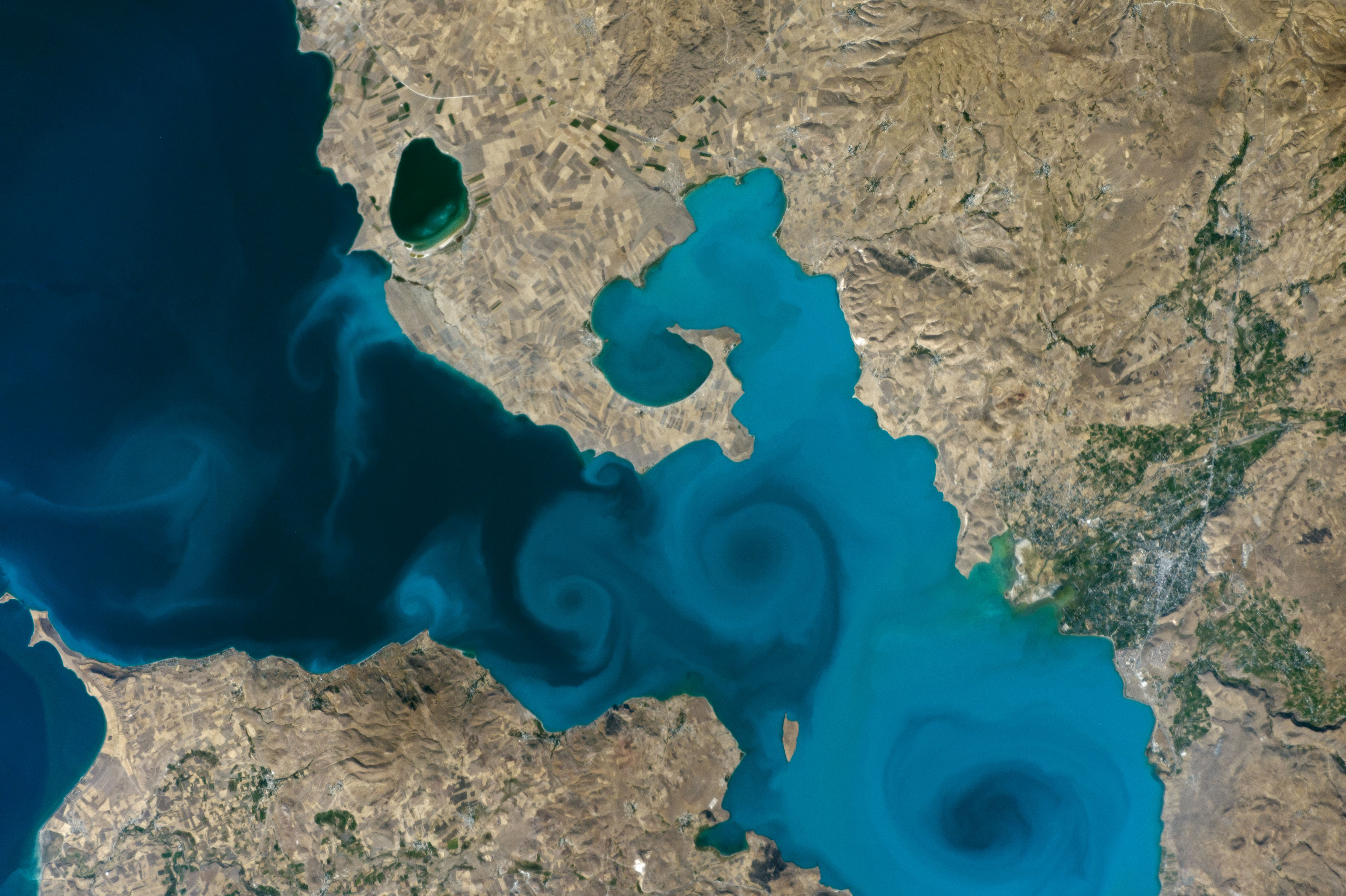 An astronaut aboard the International Space Station captured this photograph of part of Lake Van in Turkey, the largest soda or alkaline lake on Earth. Generally, soda lakes are distinguished by high concentrations of carbonate species. Lake Van is an endorheic lake—it has no outlet, so its water disappears by evaporation—with a pH of 10 and high salinity levels. Waters near the city of Erciş (population 90,000) are shallow, but other parts of the lake can be up to 450 meters (1,467 feet) deep. Lake Van water levels have changed by 100s of meters over the past 600,000 years due to climate change, volcanic eruptions, and tectonic activity. Turbidity plumes, which appear as swirls of light- and dark-toned water, are mostly comprised of calcium carbonate, detrital materials, and some organic matter. High particle fluxes occur in Lake Van during spring and fall, when phytoplankton and aquatic plants grow and produce a lot of organic carbon. The lake also hosts the largest known modern microbialite deposits.